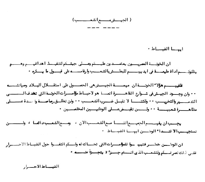 Free Officers After Cairo fires 1952